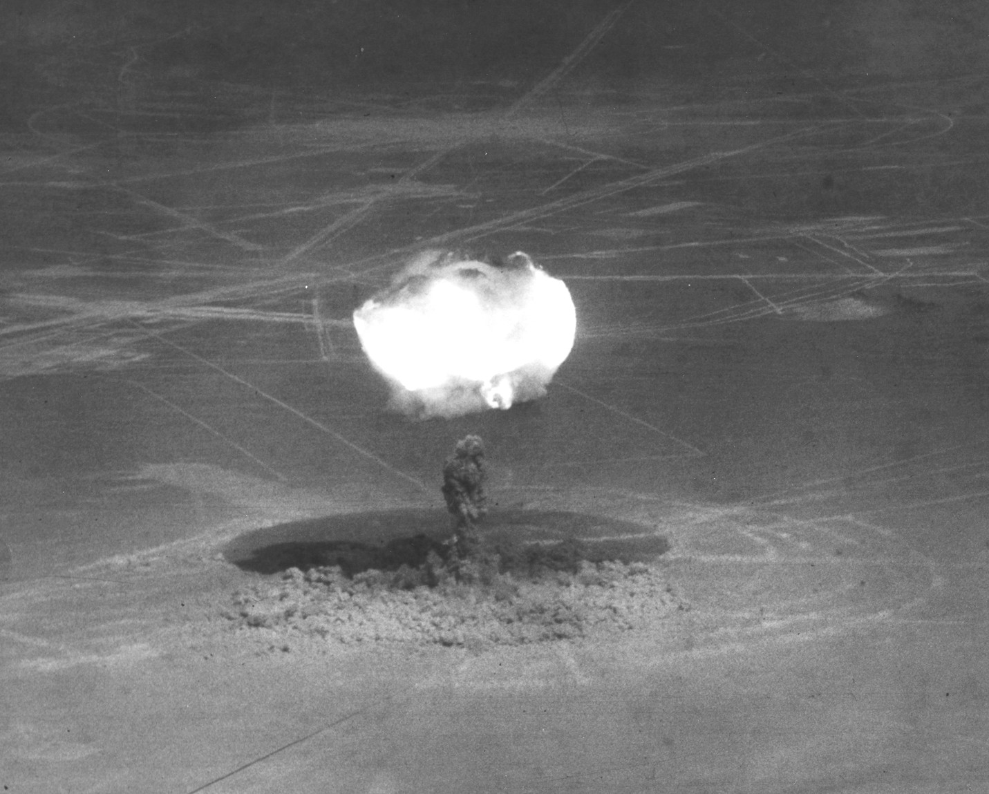 Operation TEAPOT nuclear test — Nevada Test Site (1955).